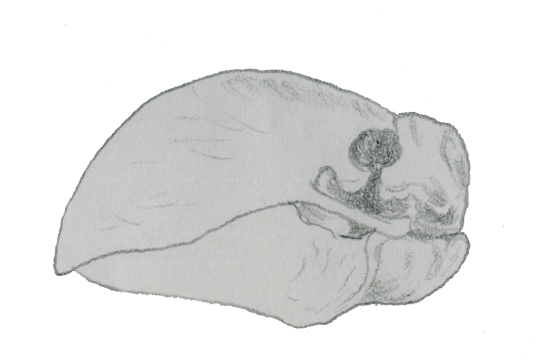 Skull of Bullockornis plaeni, an extinct bird